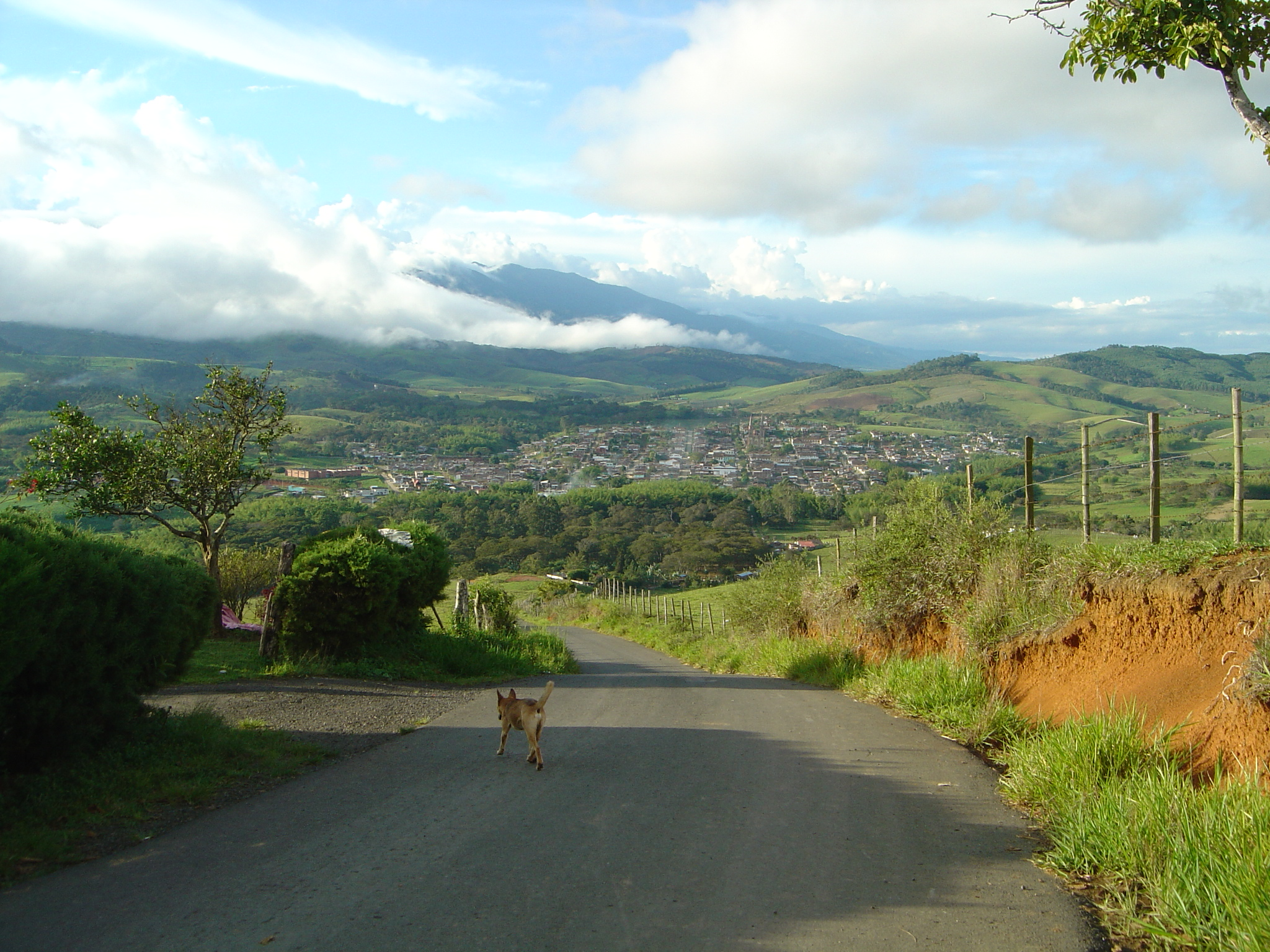 View to Restrepo Valle de Cauca